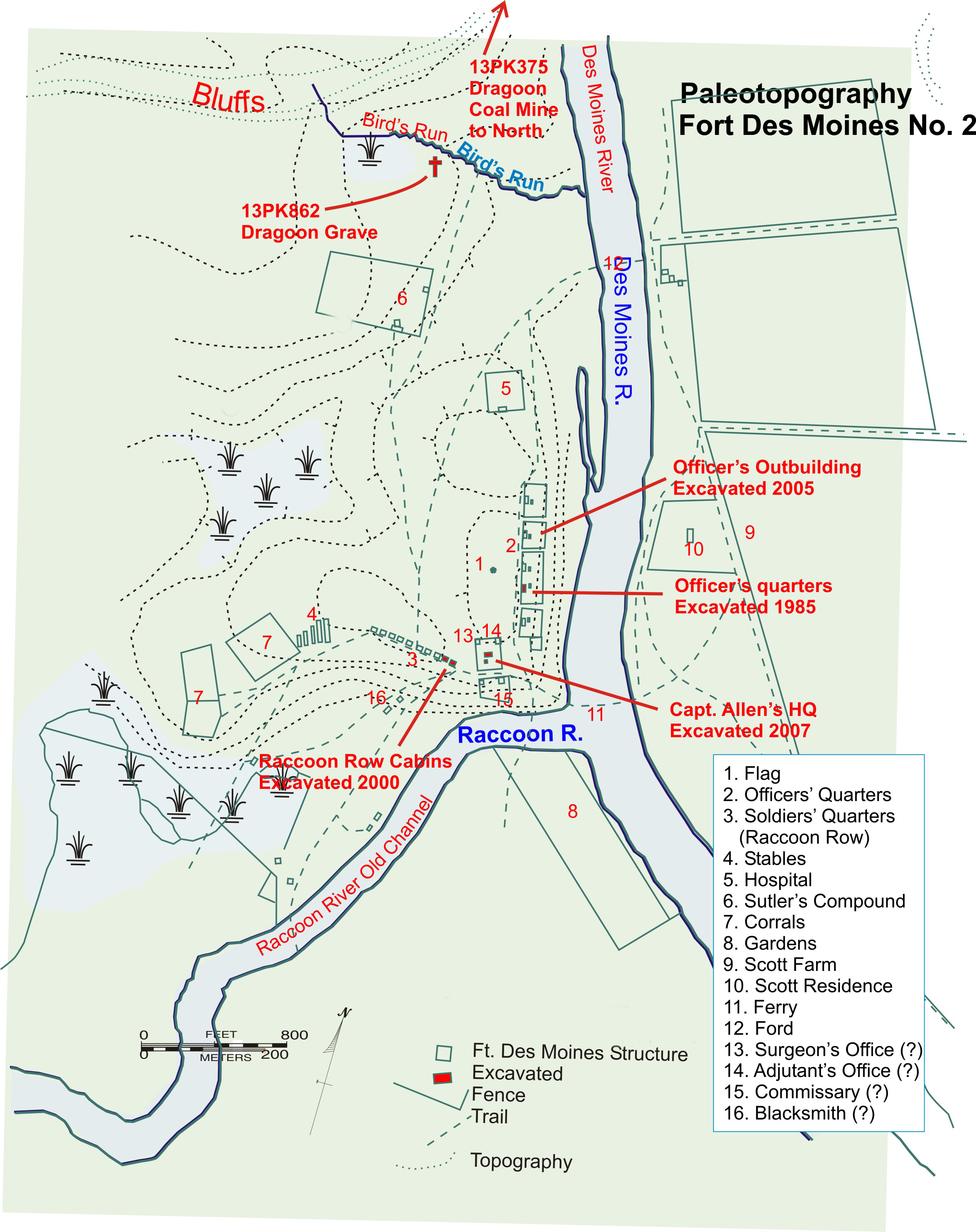 Location of Fort Des Moines No. 2 Downtown Des Moines, Iowa, United States.